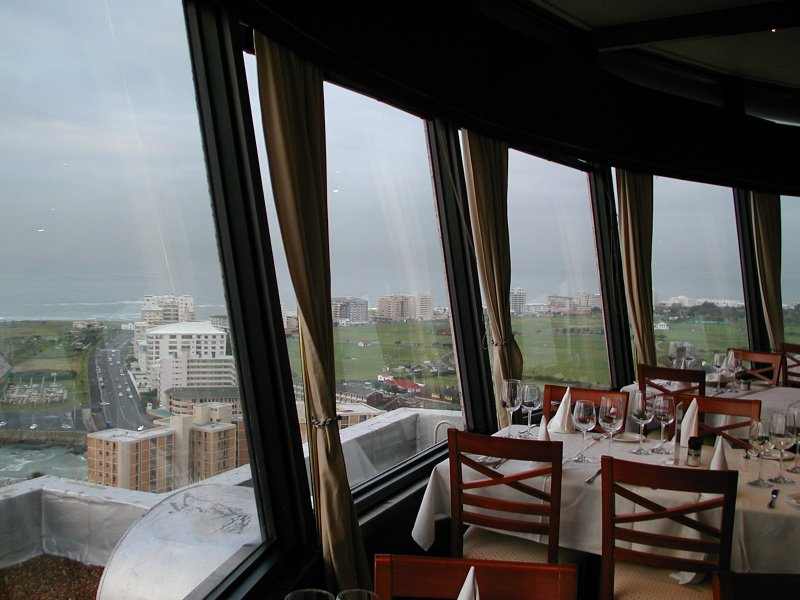 South Africa, Cape Town View over Greenpoint from the revolving restaurant in the Ritz Hotel Nick Roux 2006.